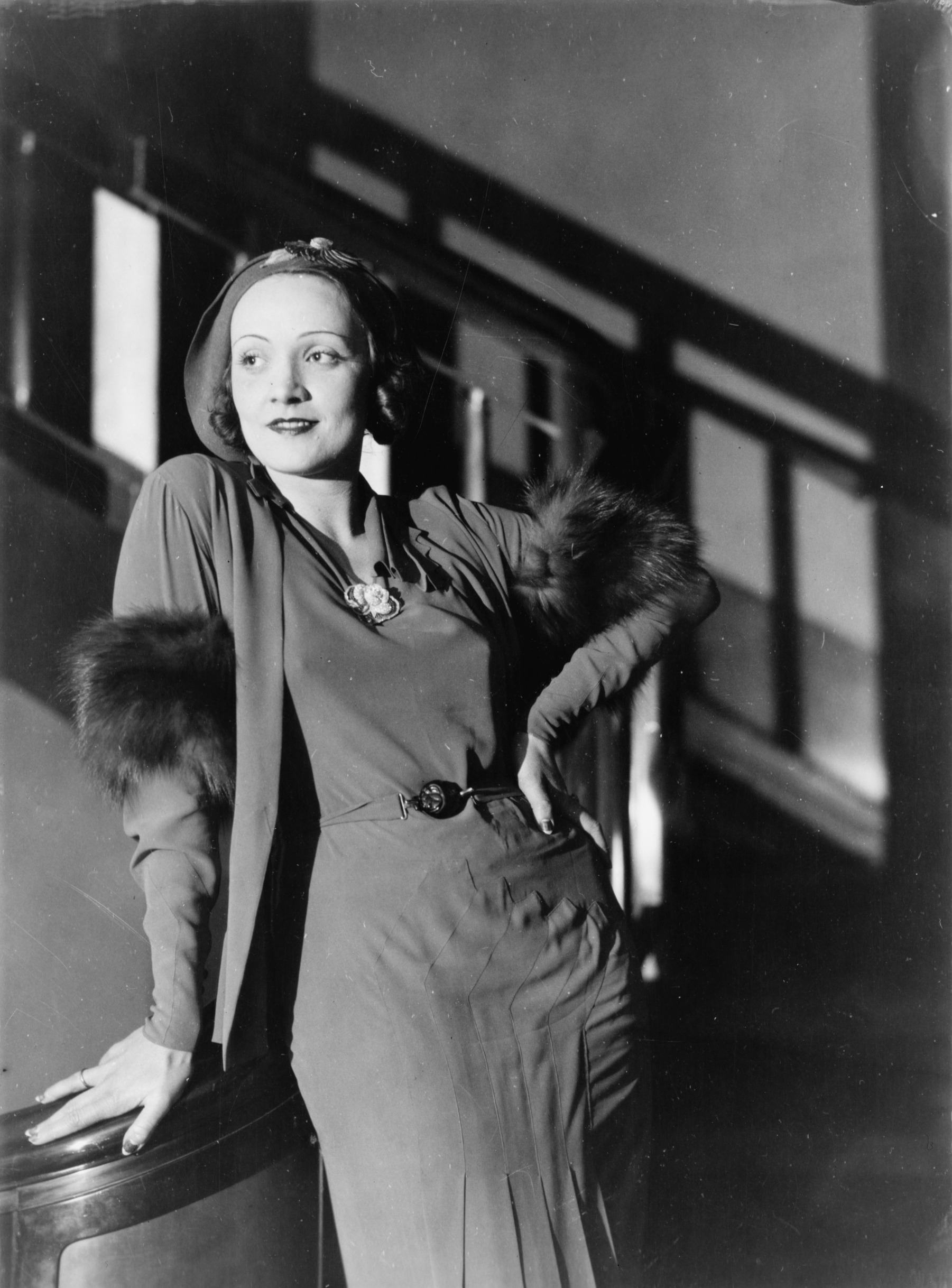 German-born American actress, singer and entertainer Marlene Dietrich (1901-1992)